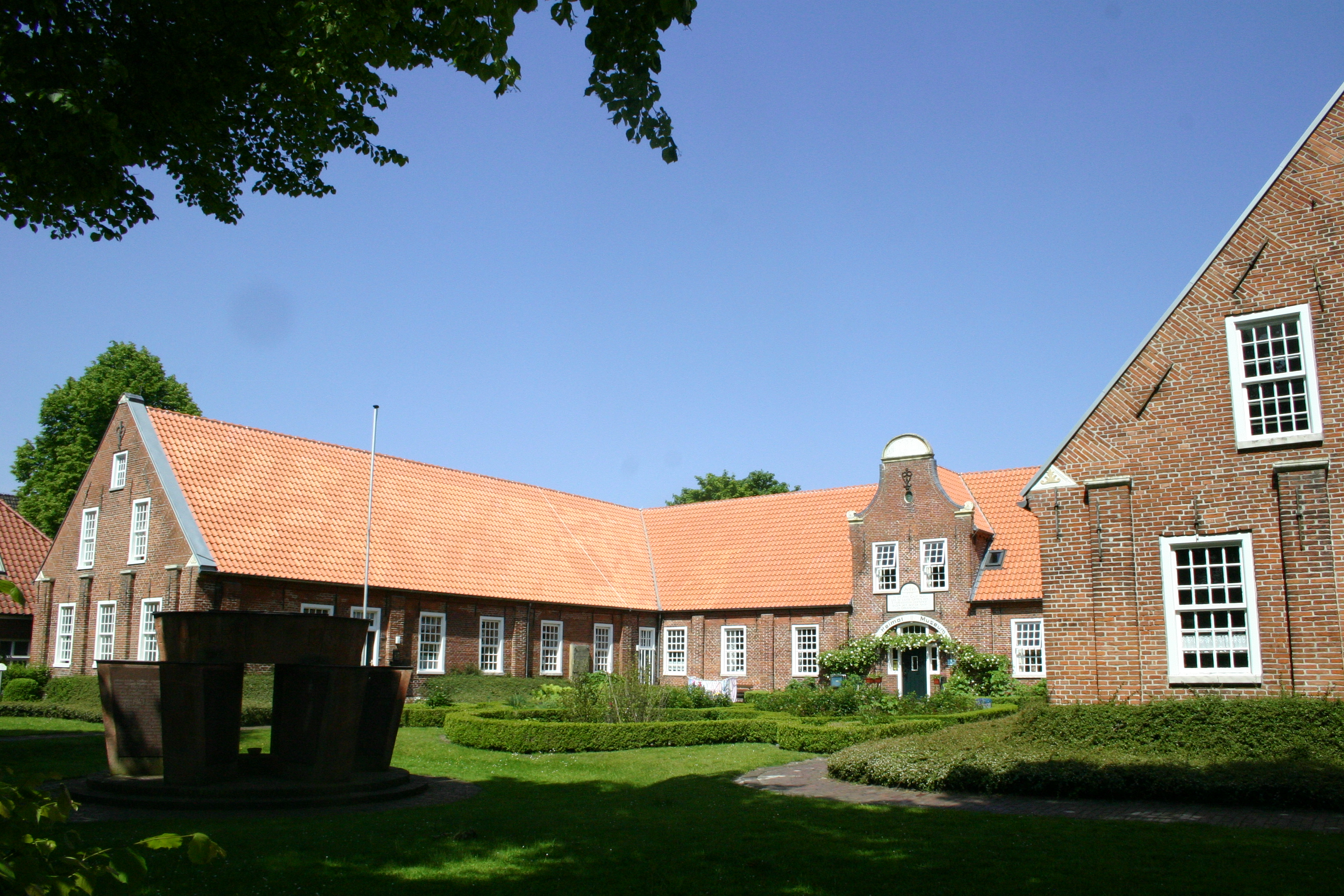 Regional Museum in Weener, district of Leer, Esat Frisia, Germany